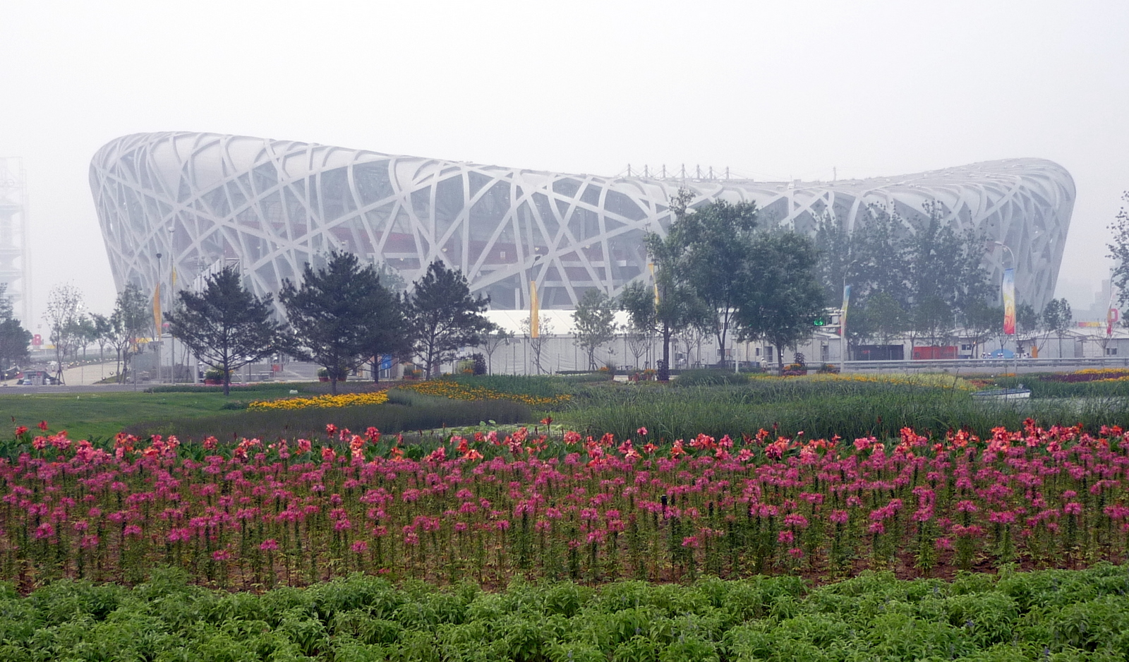 Beijing National Stadium.